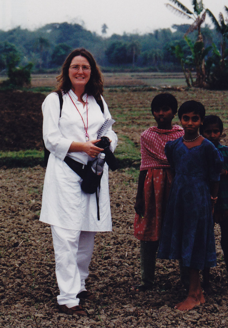 Chelo Alvarez-Stehle researching sex trafficking and environmental issues in Bengal, India.